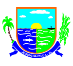 Coat of arms of the city of Jequiá da Praia, Alagoas, Brazil.